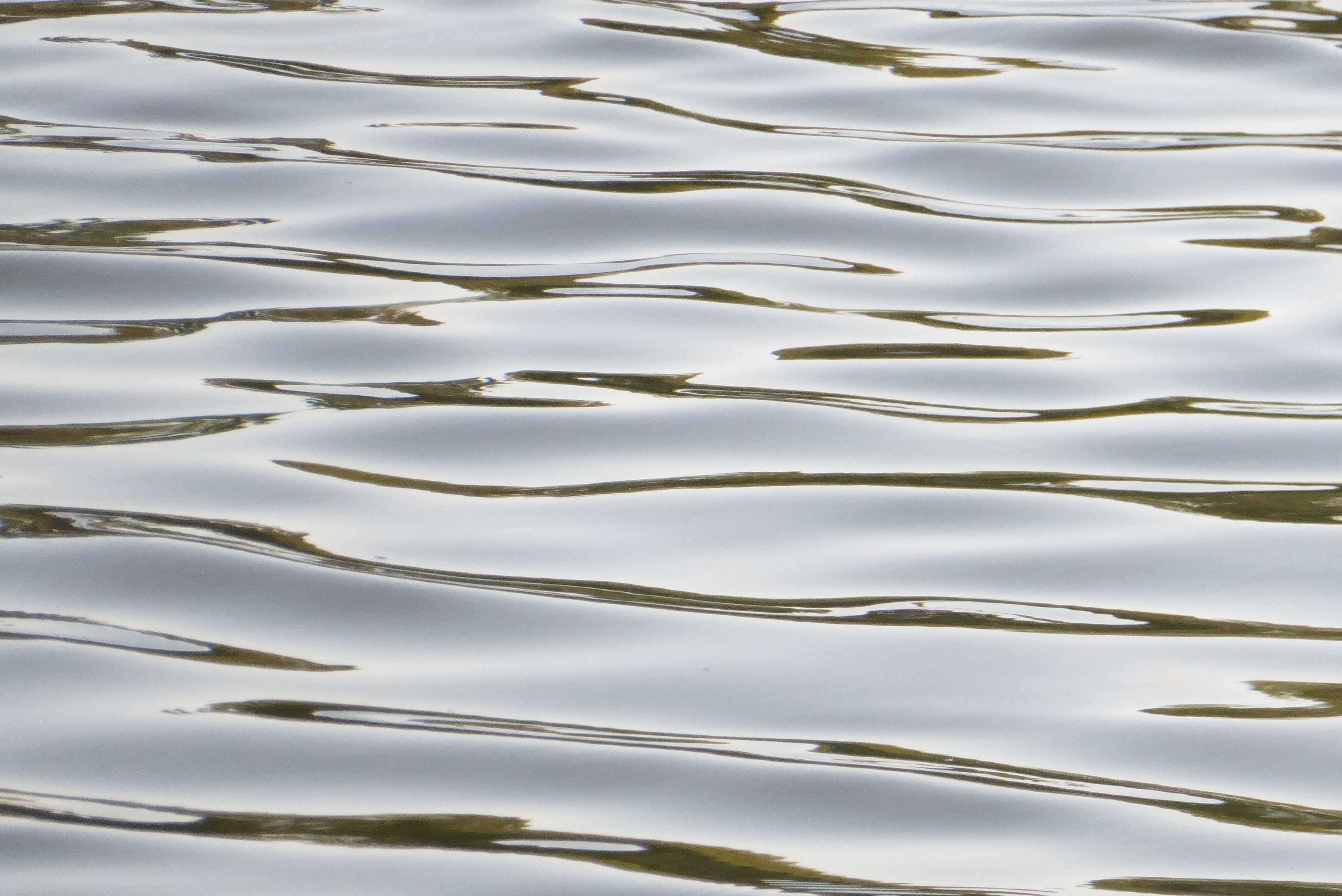 Waves in the water of Ramat Gan, National Park, Ramat Gan